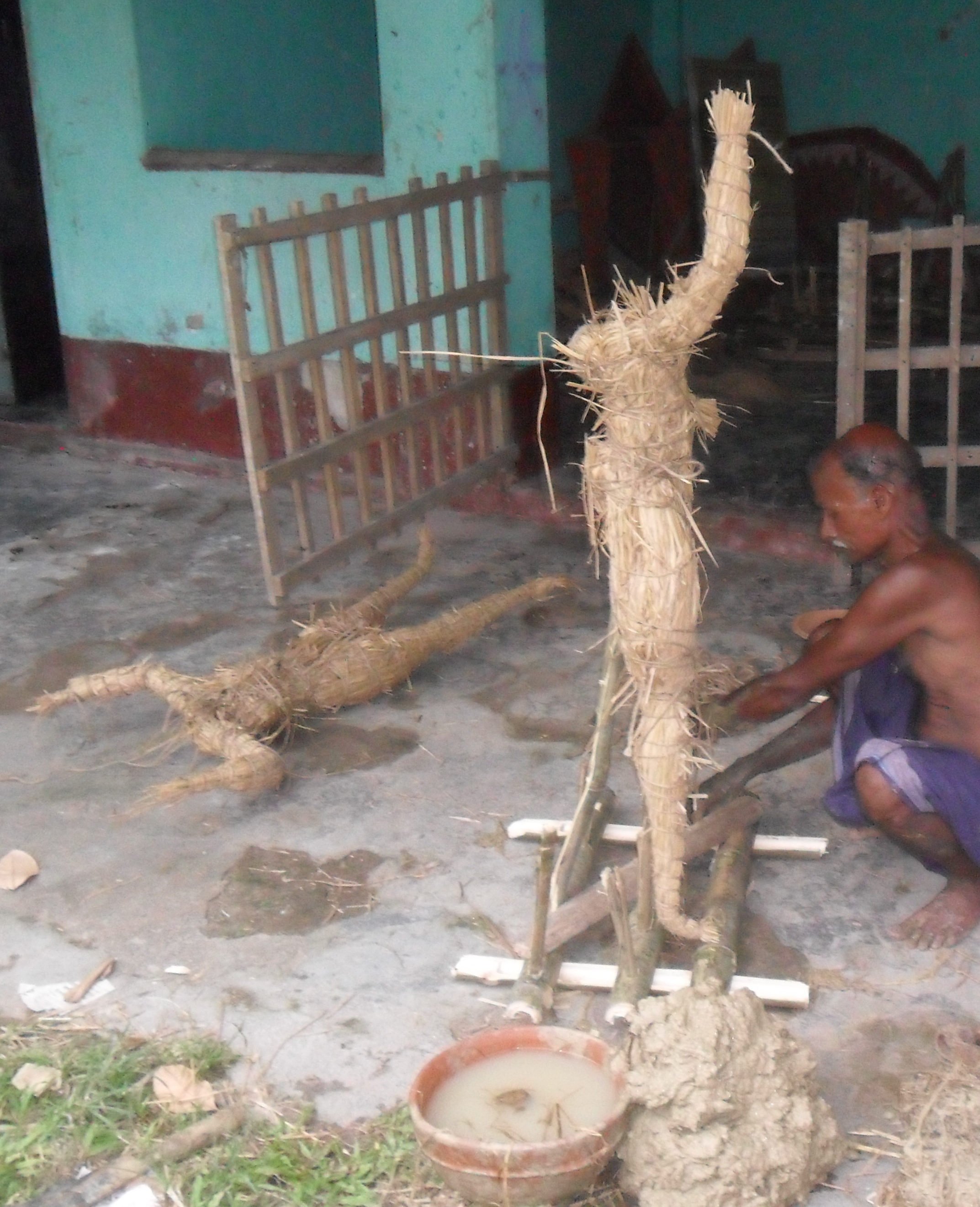 A man building statue in Rangpur,Bangladesh